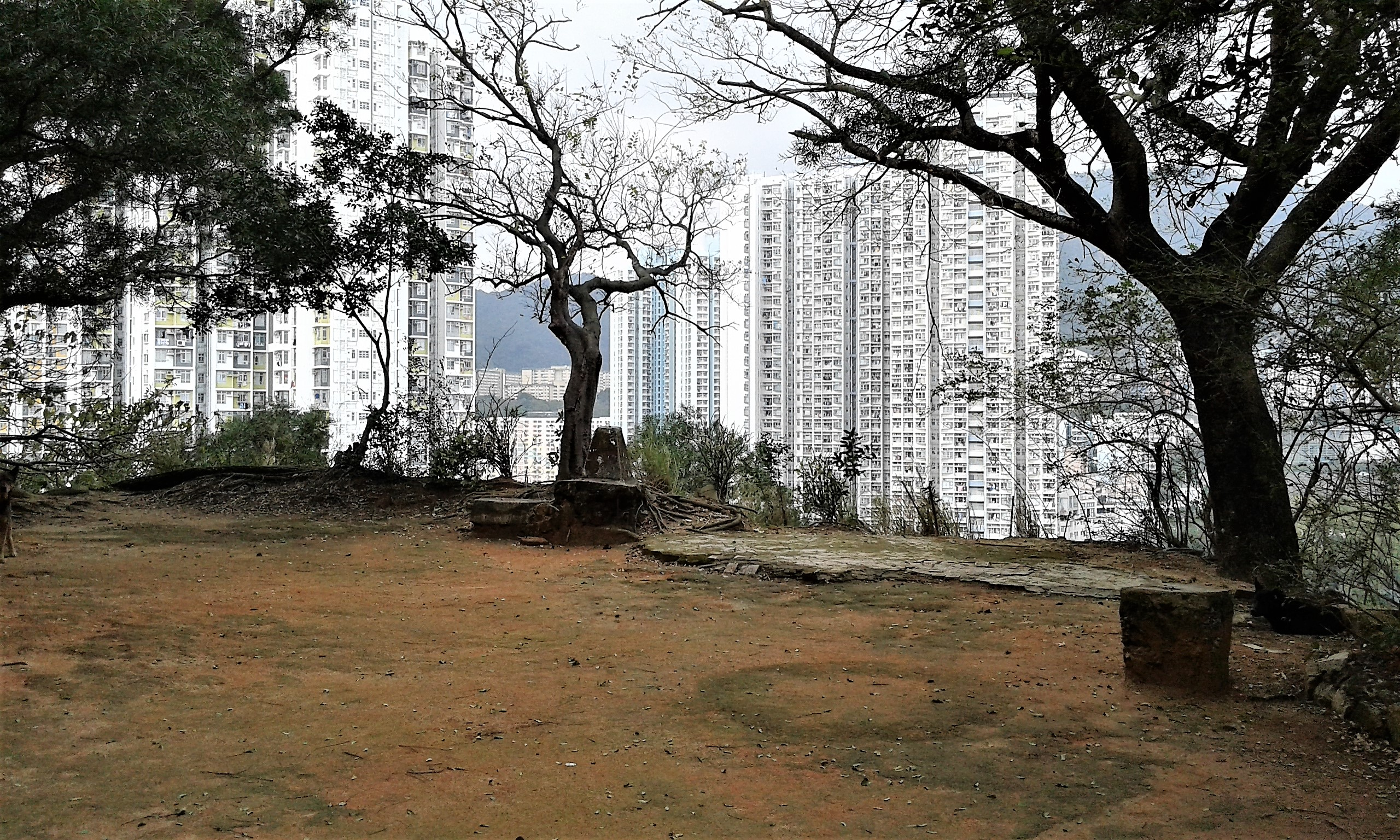 Woh Chai Shan, a hill in Shek Kip Mei, Kowloon, Hong Kong. Open space near the top of the hill. Looking north-west toward Shek Kip Mei Estate. Chak On Estate is visible in the distance.